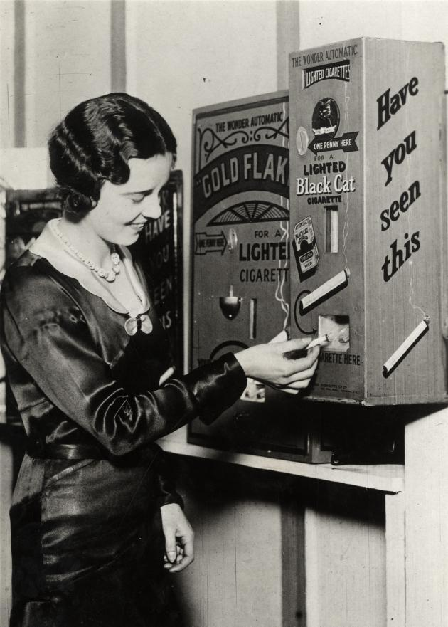 Nationaal Archief/Spaarnestad Photo/Het Leven